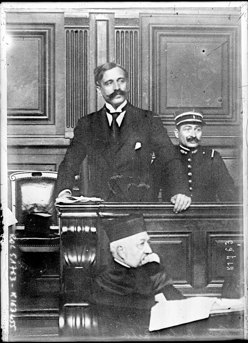 Pacha Paul Bolo, photographic picture during his trial in Paris.